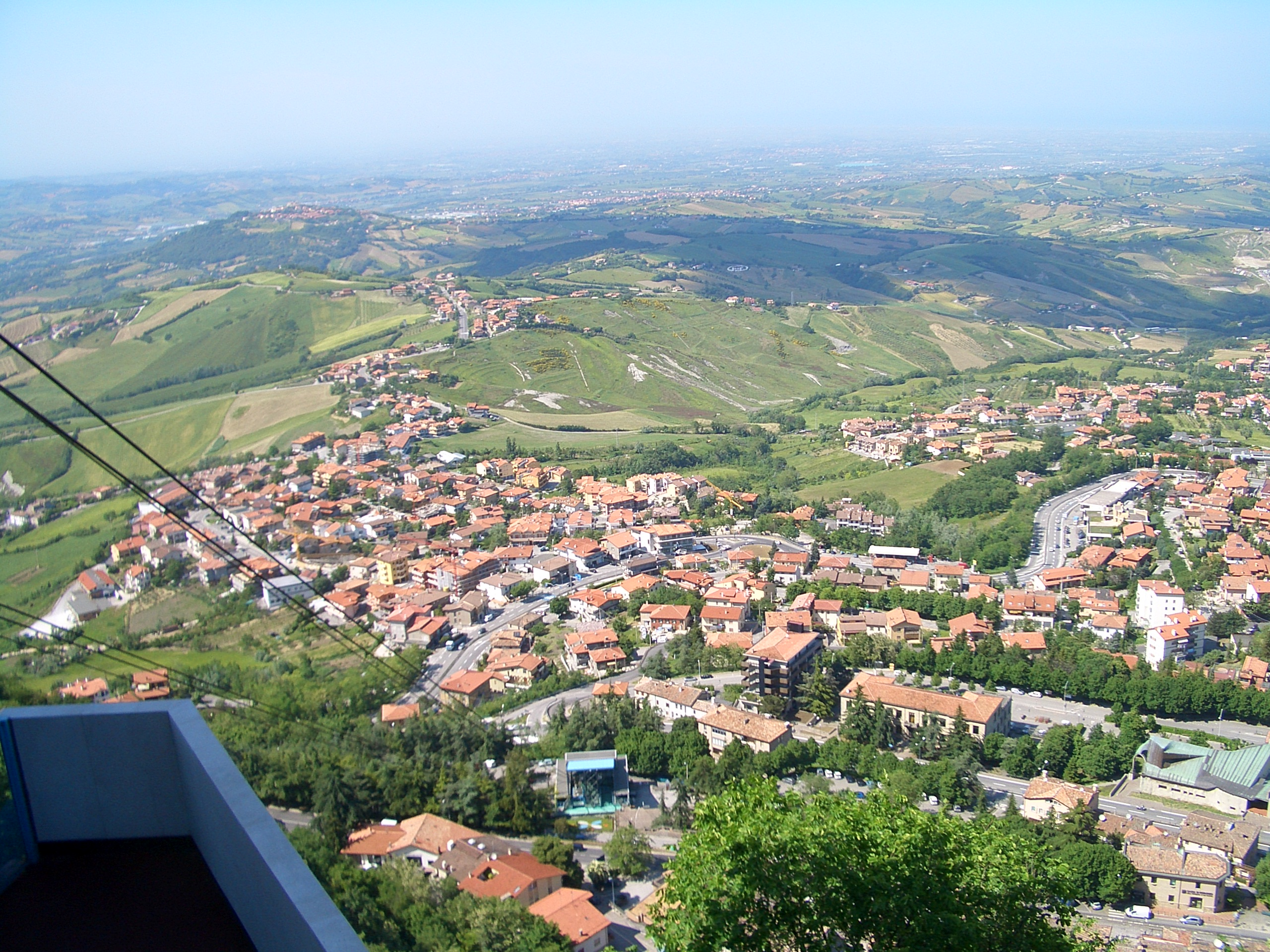 Much of San Marino can be seen from the top of Mt. Titano. The photo is taken looking N or NE. Borgo Maggiore is in the foreground, with the main street - Via 28 Luglio - running toward the right edge of the frame. In center left, Via del Bando, becoming Via Decima Gualdano, running toward Ventoso.